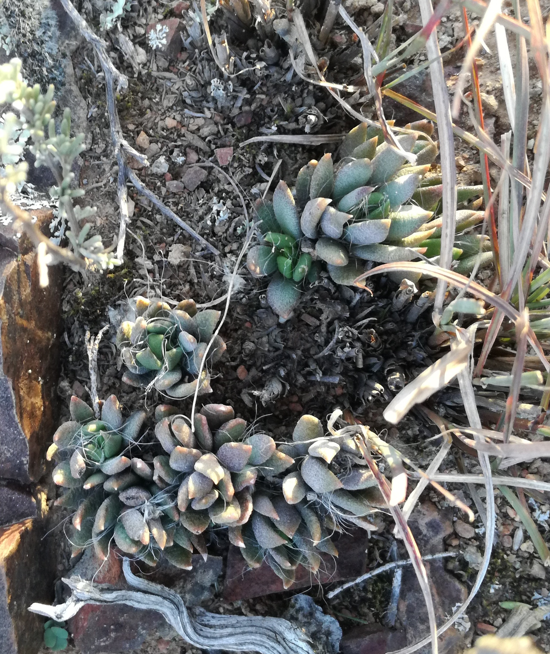 Anacampseros lanceolata growing in the Bonnievale area